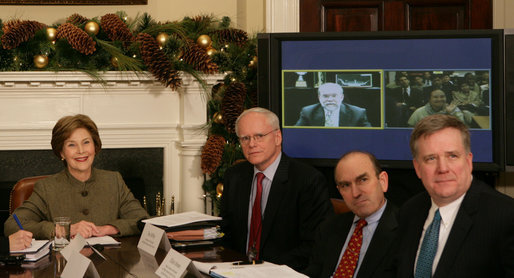 Mrs. Laura Bush is joined by Jim Jeffrey, Assistant to the President and Deputy National Security Advisor; Elliot Abrams, Deputy National Security Advisor for Global Democracy Strategy, and Dennis Wilder, Special Assistant to the President and Senior Director for East Asian Affairs, as she participates in a video conference on Burma in recognition of International Human Rights Day Monday, Dec. 10, 2007, in the Roosevelt Room of the White House. Speaking via video are U.S. Ambassador to Thailand Skip Boyce and Dr. Cynthia Maung, Founder and Director of the Mae Tao Clinic in Mae Sot,Thailand. White House photo by Chris Greenberg